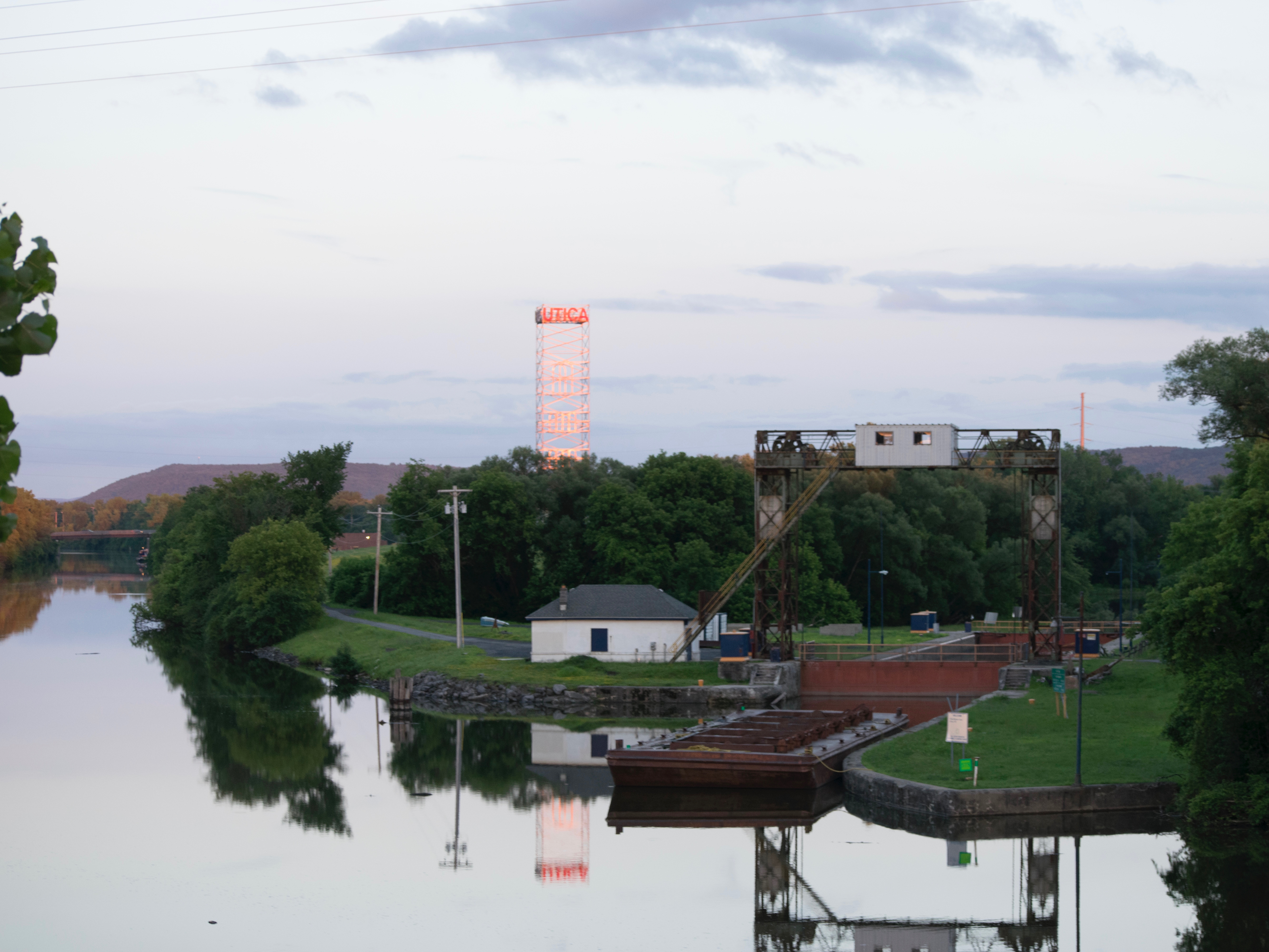 The Utica Tower and harbor lock, connected to the NY Barge Canal.